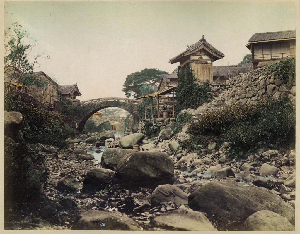 C1870`s Nagasaki Nakashima River - UCHIDA KUICHI